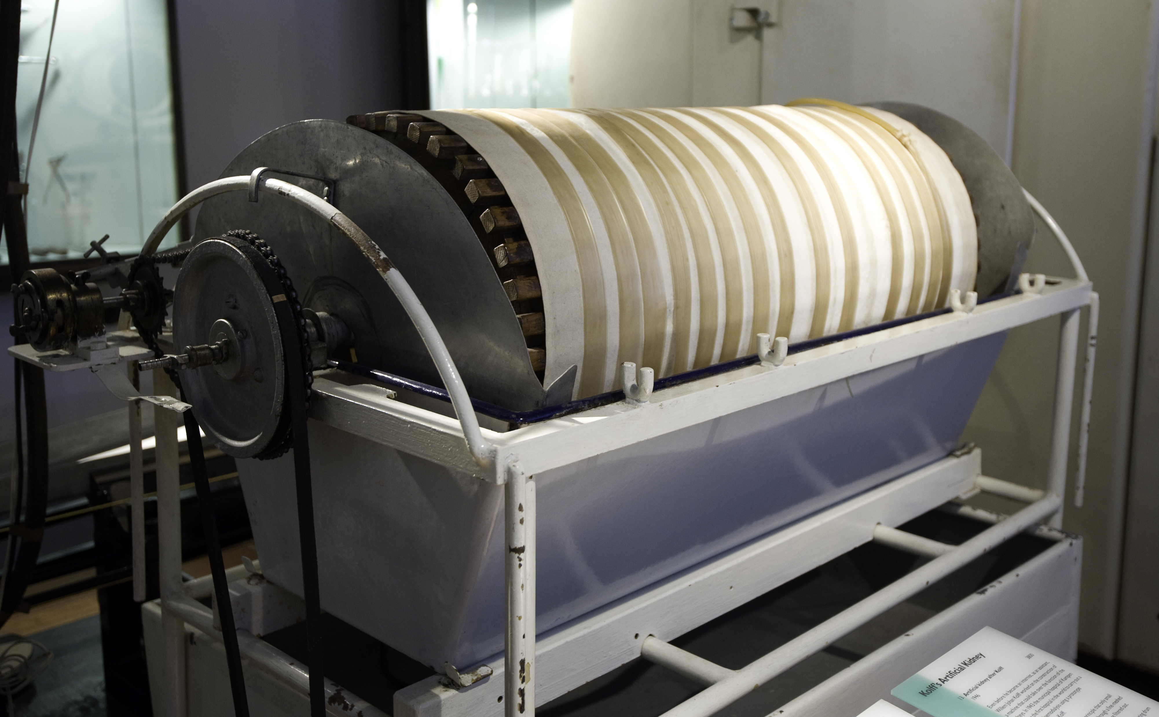 Museum Boerhaave walk-through